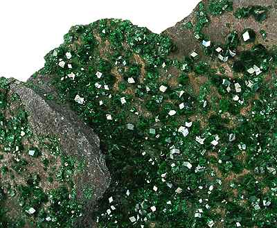 Uvarovite Locality: Saranovskii Mine (Saranovskoe), Saranovskaya (Sarany) Village, Gorozavodskii area, Permskaya Oblast', Middle Urals, Urals Region, Russia (Locality at ) Size: large cabinet, 18.3 x 13.1 x 2.0 cm UVAROVITE Garnet This large plate of the rare uvarovite garnet varietal is the largest and finest I personally know of or have seen. Since 1832 when they were found at this, the Type Locality for the species, this garnet has been the standard of excellence for a green garnet species. Named after Count Sergey Semeonovich Uvarov (1786-1855), Russian statesman and scholar, President of the Academy of St Petersburg (1818-1855) - according to MINDAT. For the collector, this is thus a historical specimen and a beauty. This plate is museum-sized, and rich in quality as well as having that size. Uvarovite crystals do not grow so large as other species of garnet, especially from this locality where most crystals are sub-mm in size and 2mm crystals are considered noteworthy. This specimen has crystals to a whopping 5.5 mm - DOZENS if not hundreds of them. Although there is some damage, it is relatively minor and lost amidst hundreds, literally, of bright and reflective pristine crystals on this plate. This specimen was in the Richard Kosnar collection since it came out of an old Russian collection in 2001. When I first saw it, my mouth dropped. I had no idea such a piece existed.